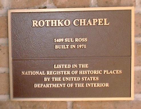 Sign on exterior of Rothko Chapel in Houston, TX. Photograph taken by Melissa Gasser in January 2004.